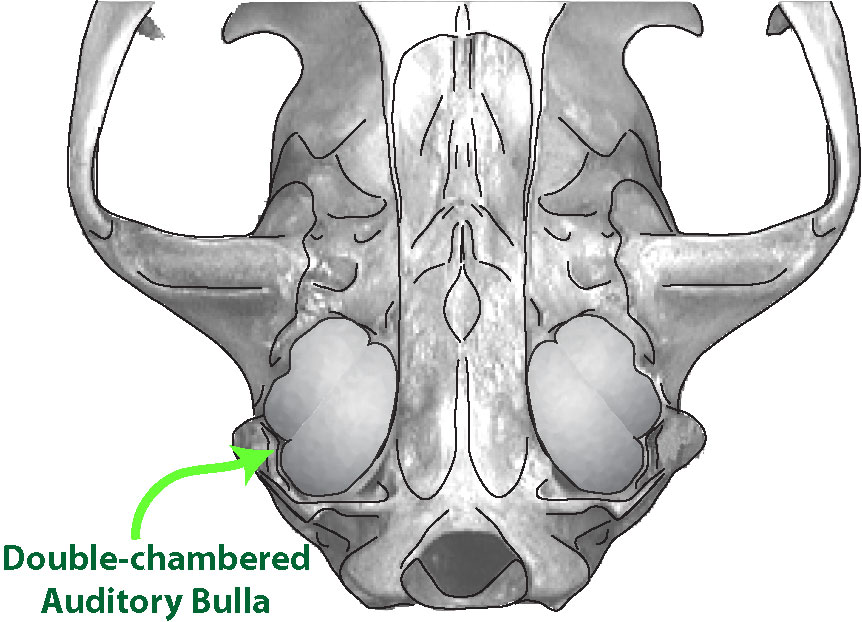 Diagram produced digitally by me on 13 April 2007. Template for the diagram was a photo contained in an educational powerpoint (ppt) found at